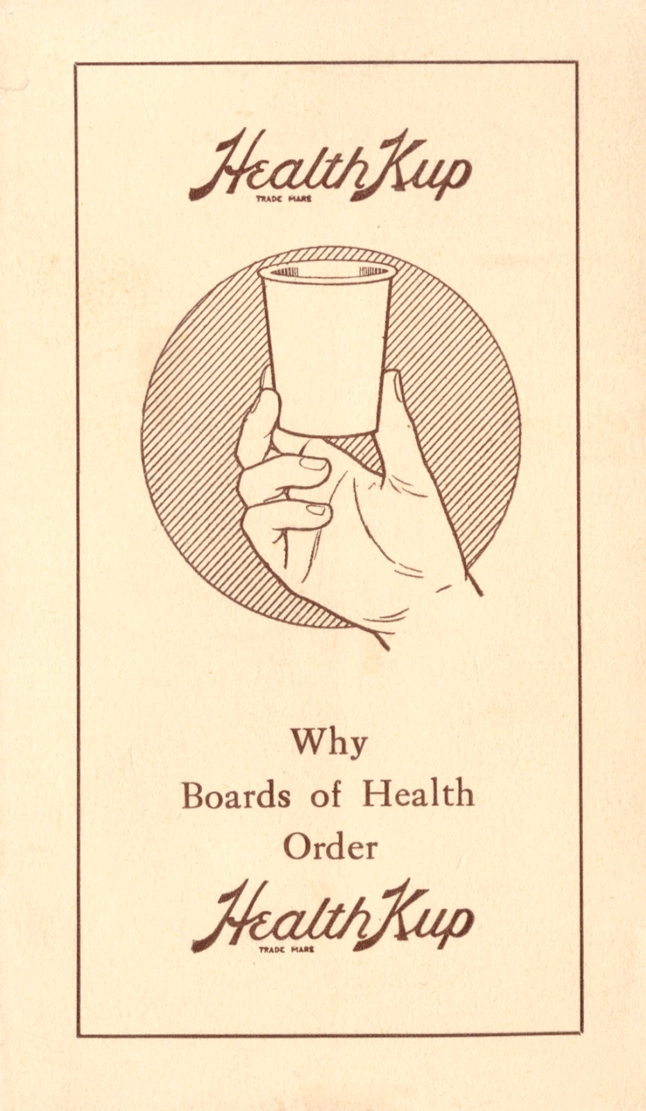 This is an early advertisement from the Dixie Cup Corporation before they became Dixie Cup.